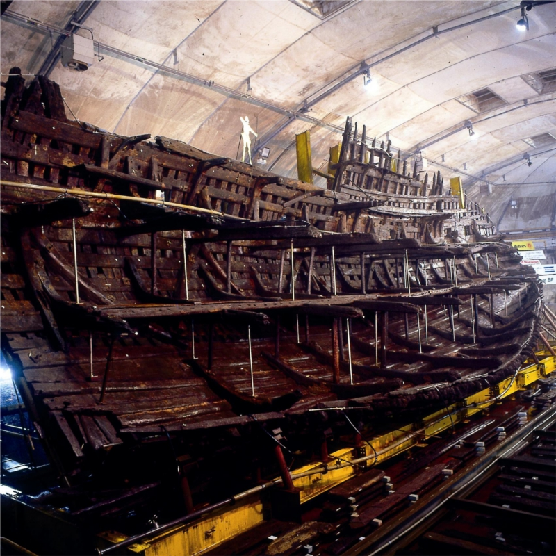 The Tudor period carrack Mary Rose in its specially designed building at the Historic Dockyard in Portsmouth, United Kingdom.